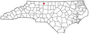 Category:North Carolina Dot Maps